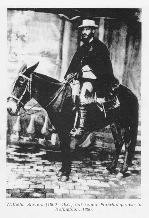 Wilhelm Sievers (1860-1921) on his first expedition, 1884-1886 to Colombia and Venezuela